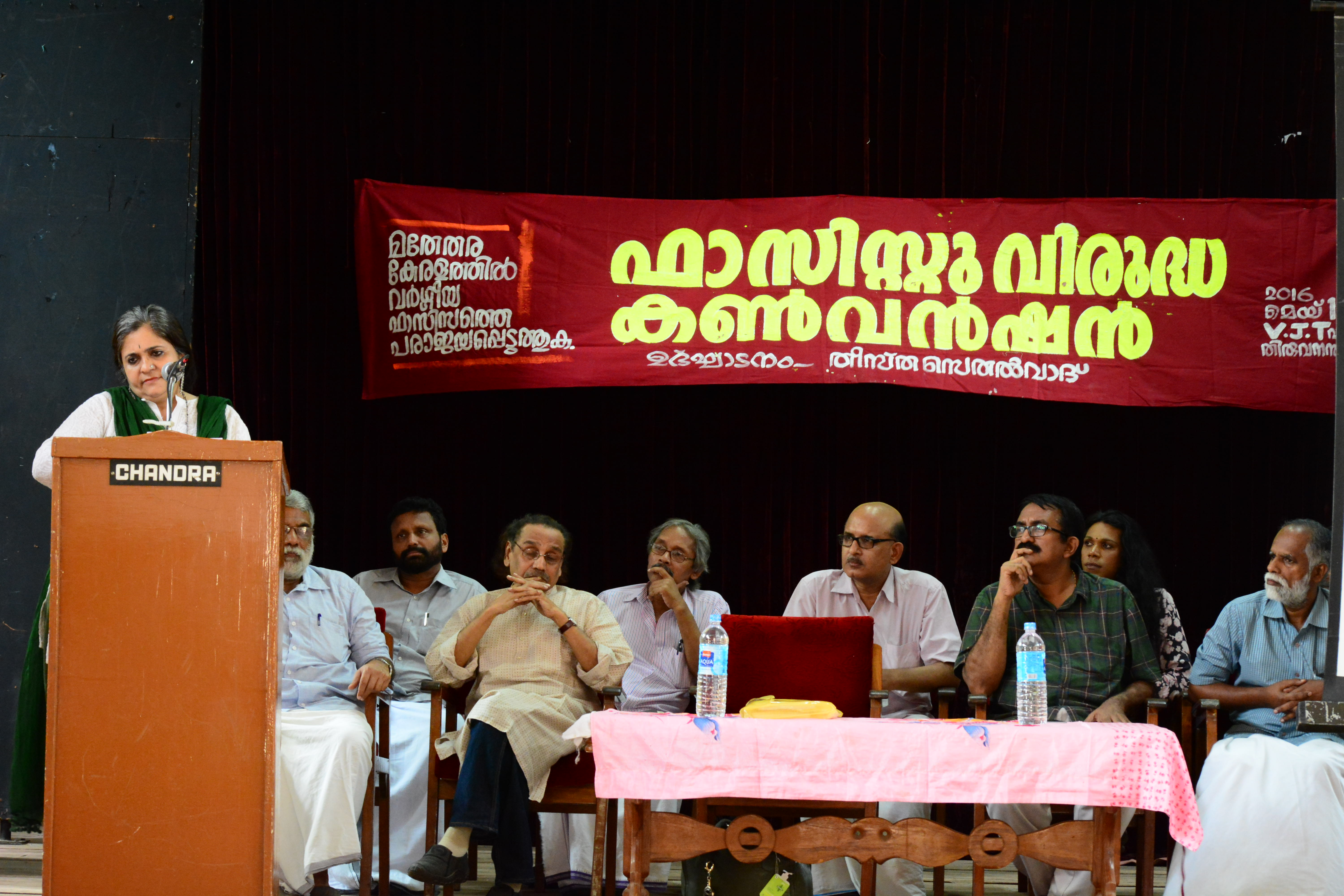 Teesta Setalvad addressing a gathering at VJT Hall Trivandrum, Kerala. Photo by: Syed Shiyaz Mirza